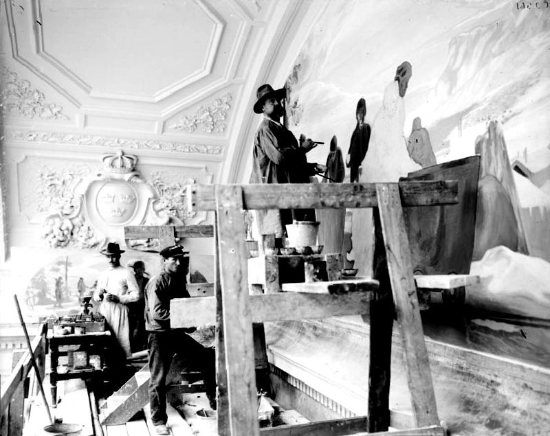 Swedish artist Georg Pauli